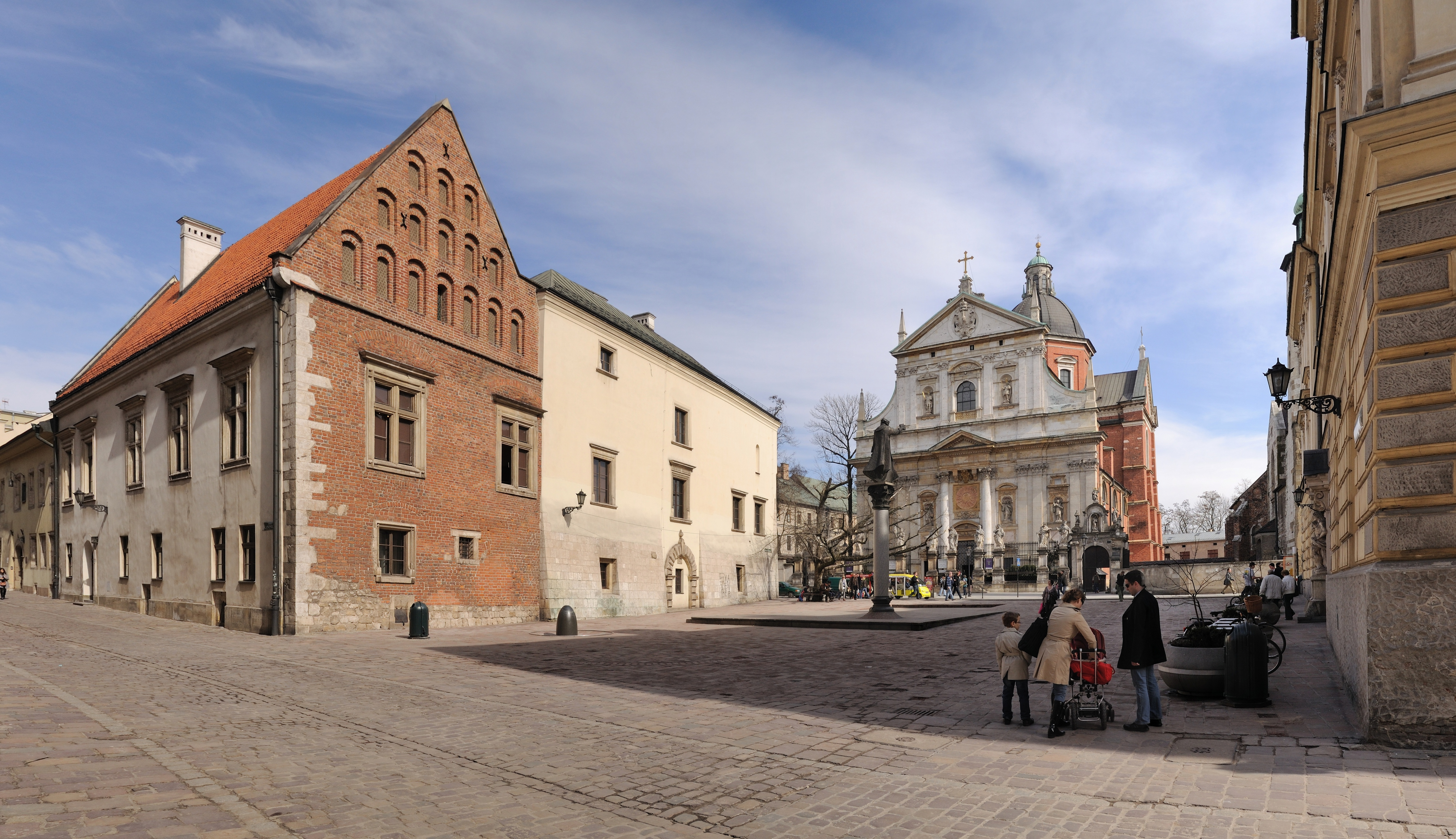 Place Mary Magdalene, Cracow